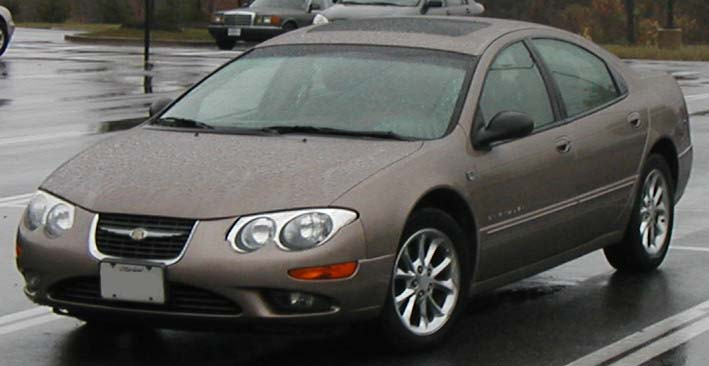 1999-2004 Chrysler 300M photographed in USA.